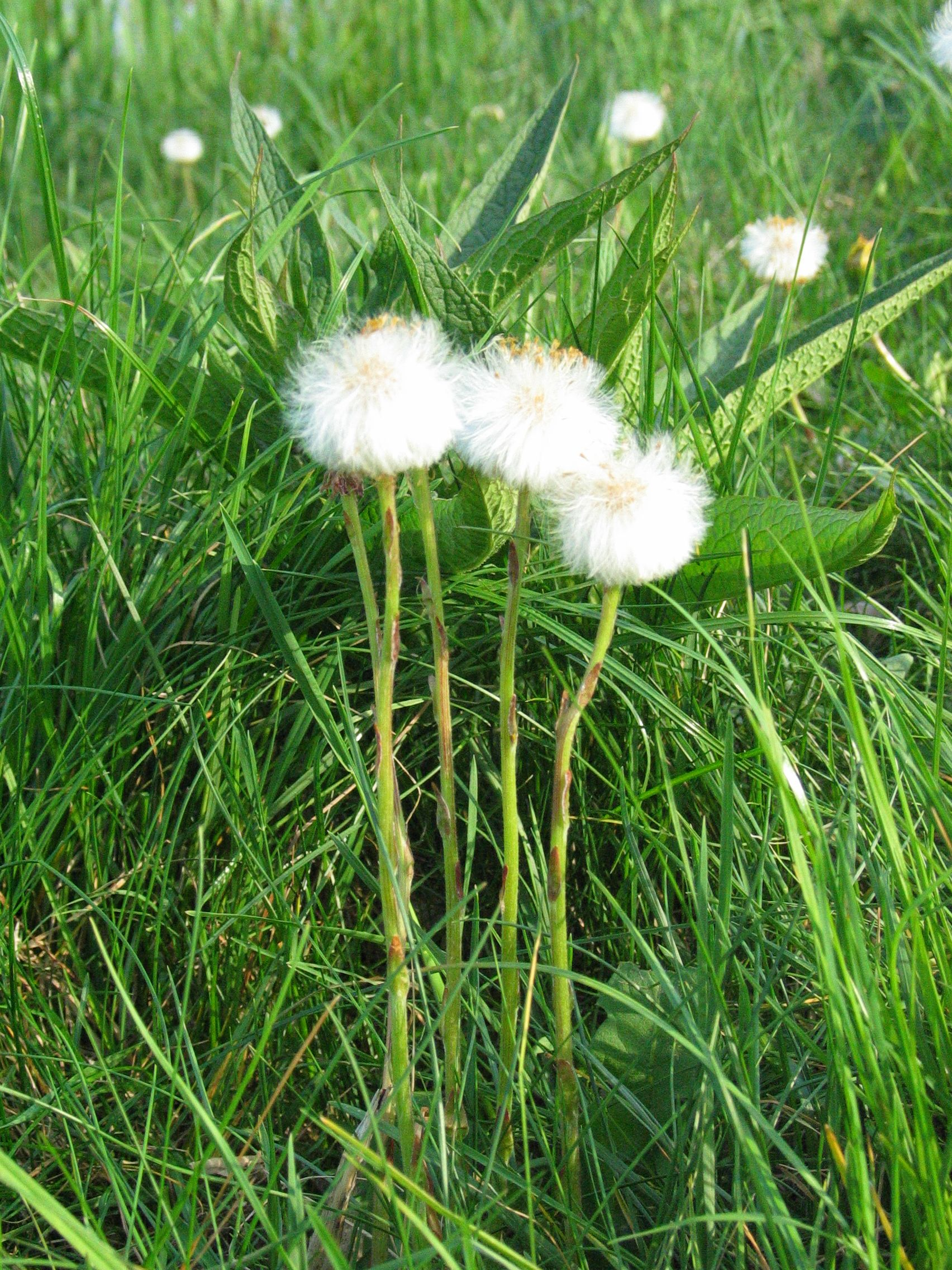 Tussilago farfara infructescence, Wrocław, Poland.